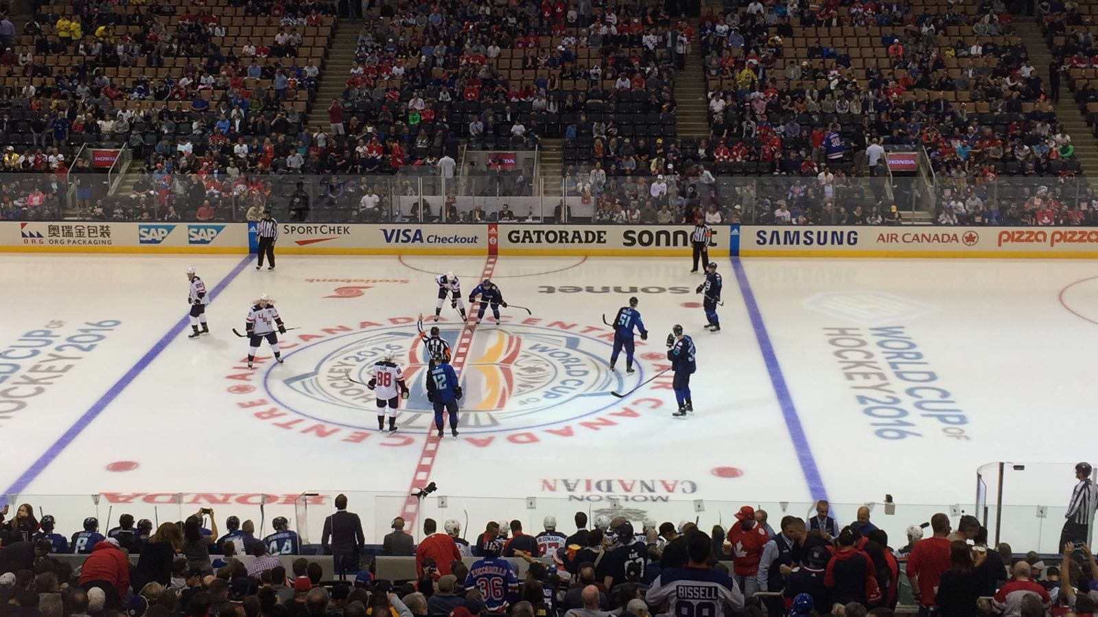 2016 World Cup of Hockey. Team Europe against USA.